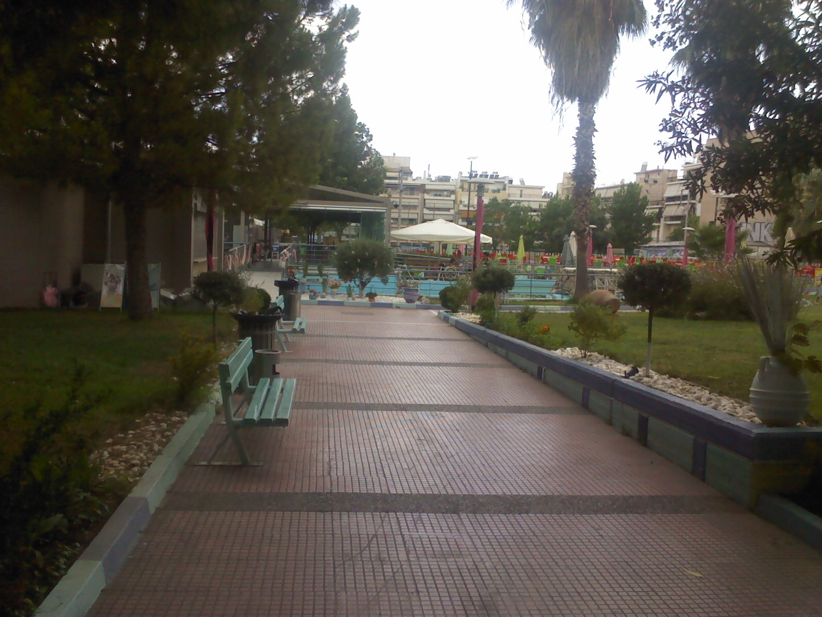 Square Gennimata Kaminia